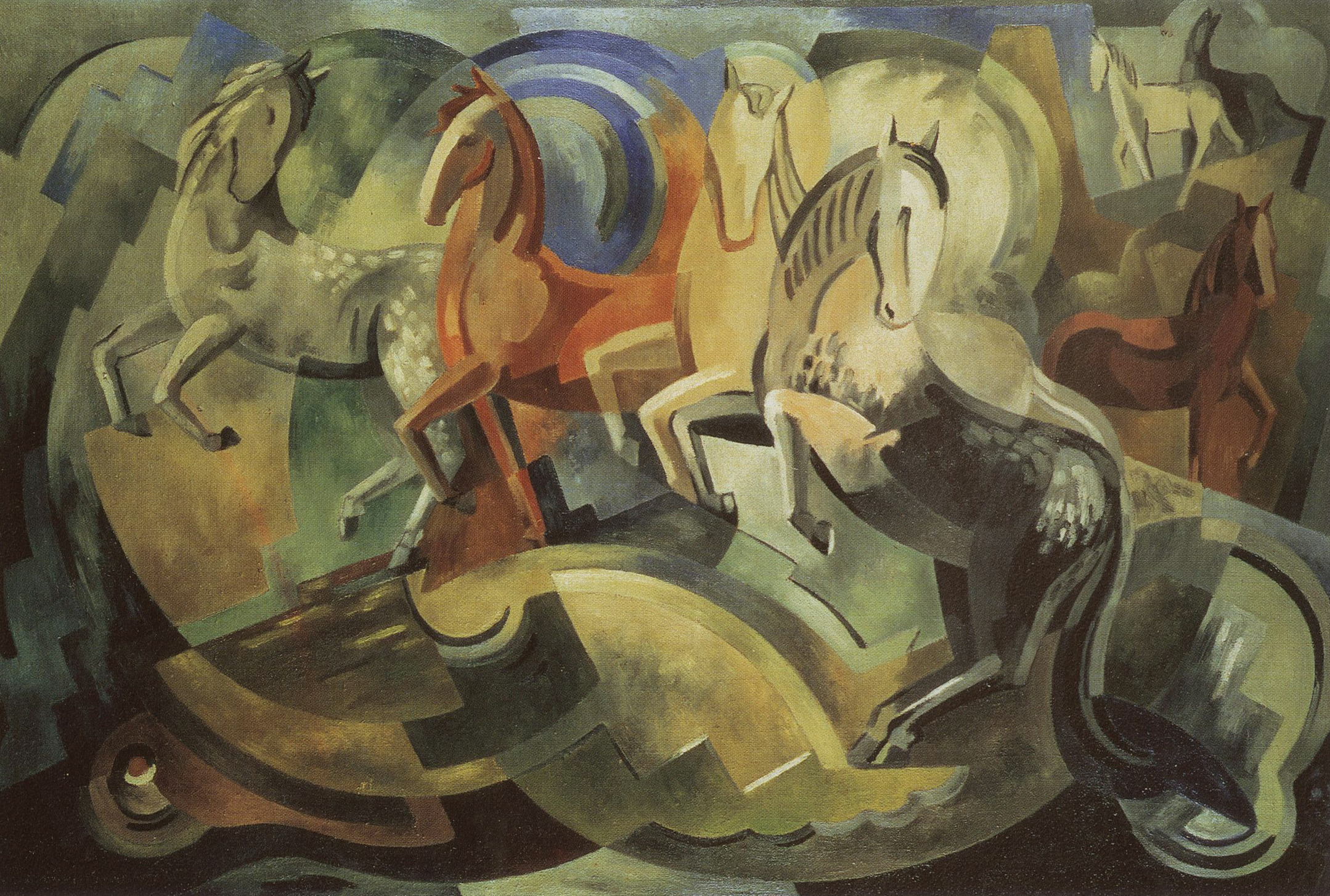 Abstraction of horses